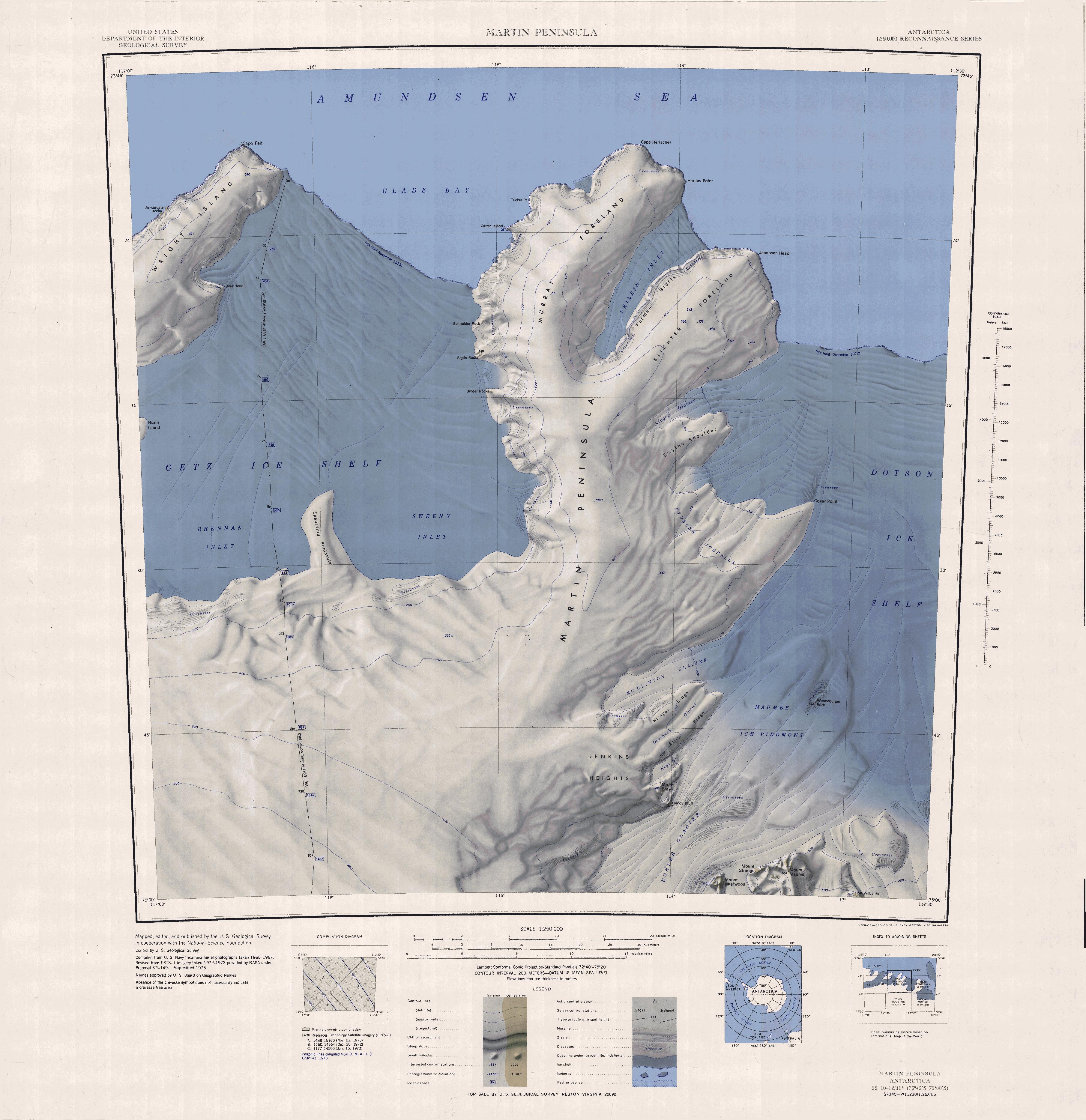 1:250,000-scale topographic reconnaissance map of the Martin Peninsula area from 112°30'-117°W to 73°45'-75°S in Antarctica, including the eastern parts of the Getz Ice Shelf and the western parts of Dotson Ice Shelf. Mapped, edited and published by the U.S. Geological Survey in cooperation with the National Science Foundation.